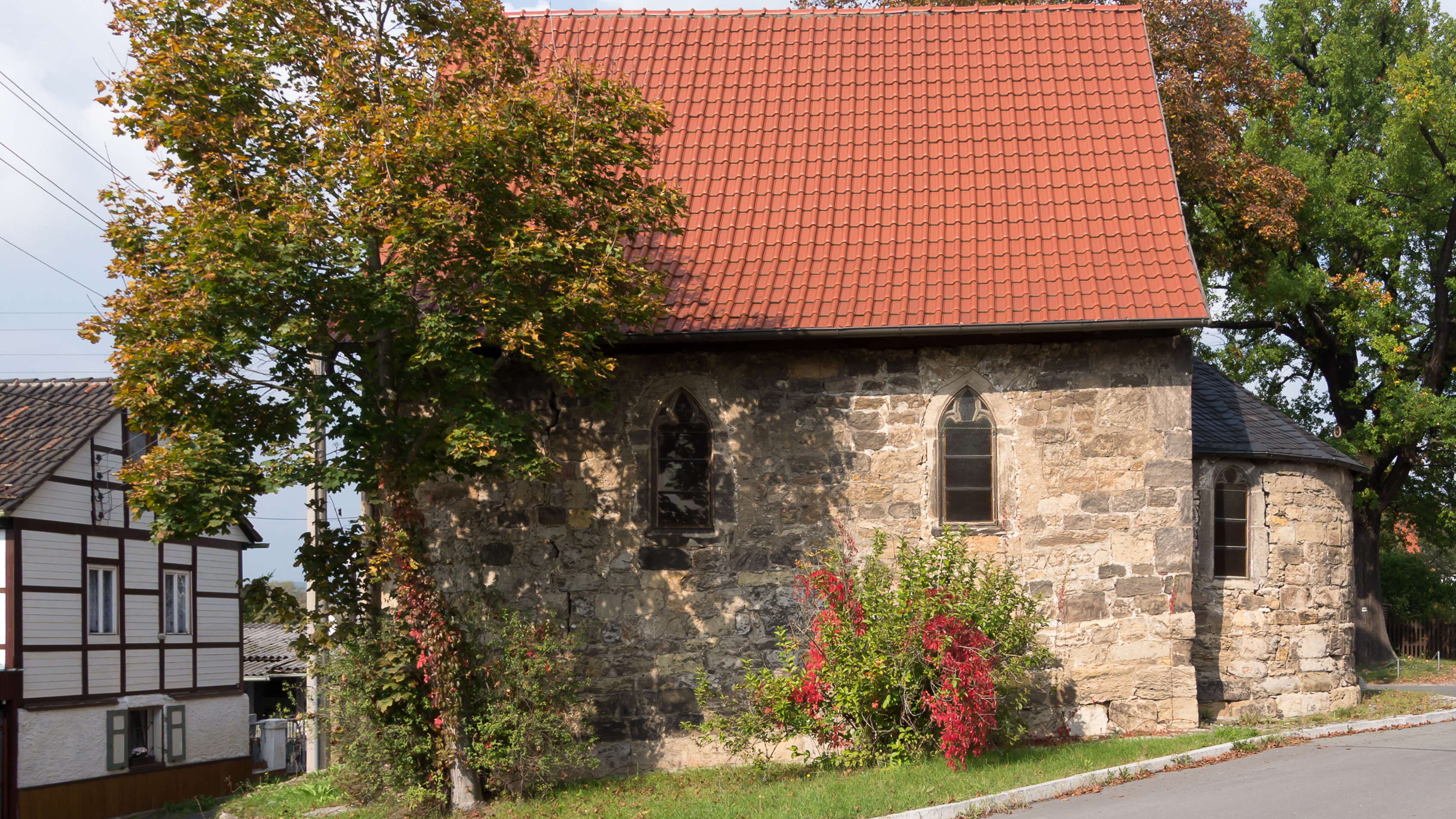 Köditz Kapellenstraße 12 Nikolauskapelle mit Ausstattung